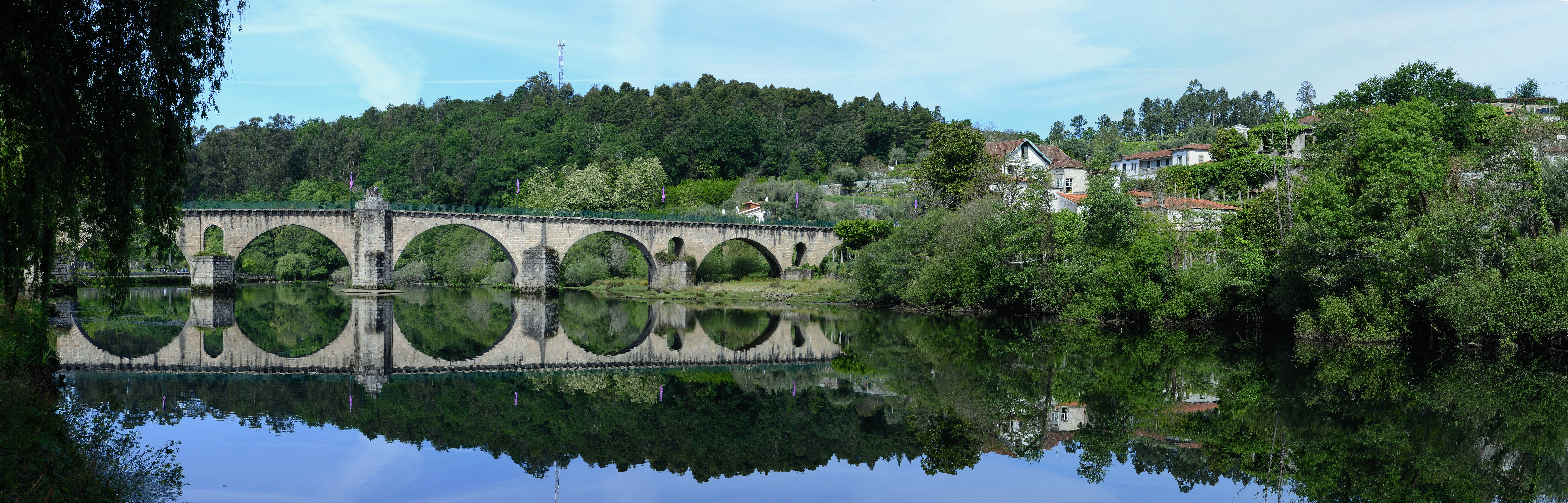 Bridge over Lima river, Ponte da Barca